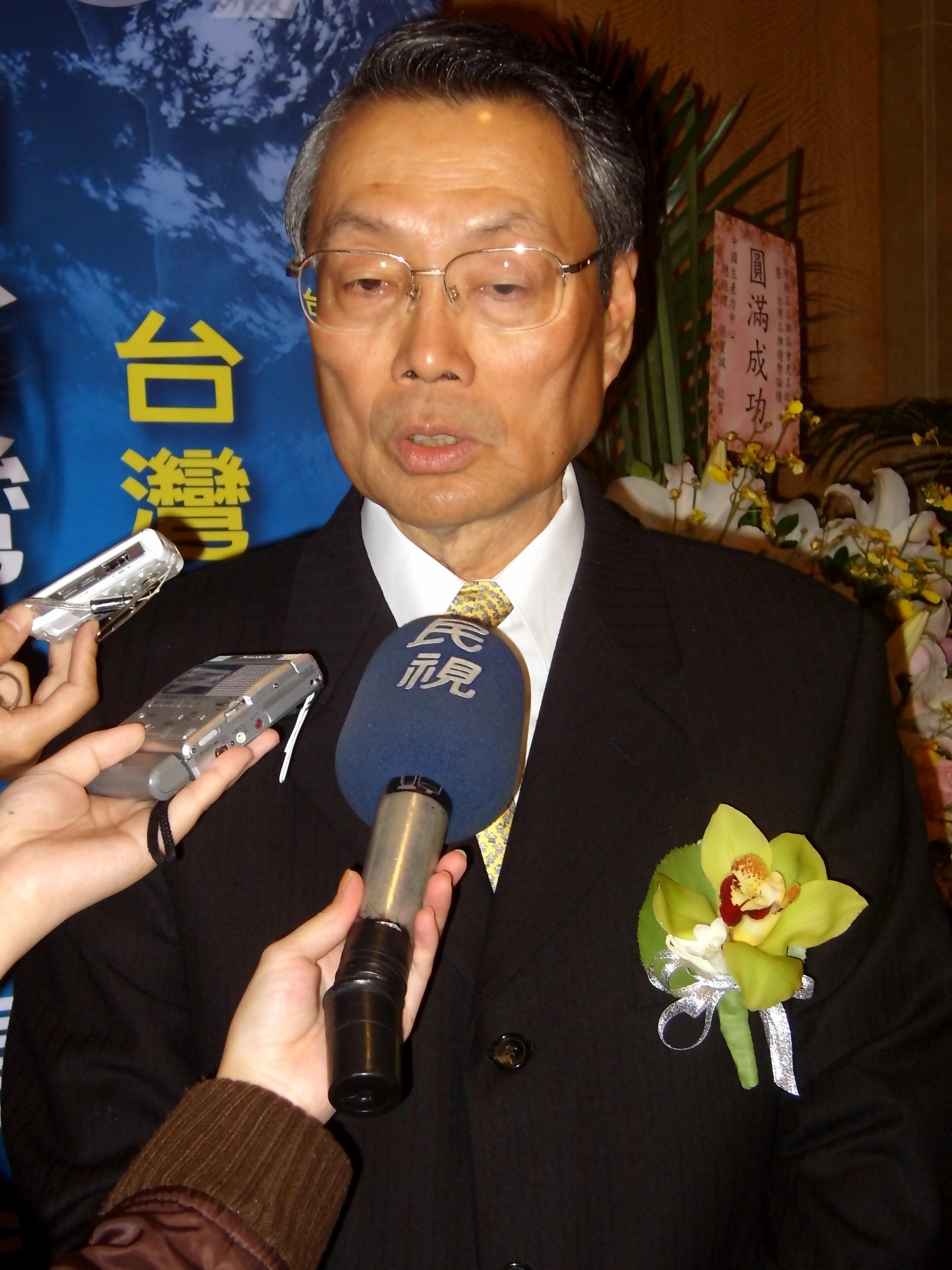 2007 Taiwan Brands' Trend Forum: Stan Shih, Founder of Multitech.2007台灣品牌趨勢論壇，宏碁創辦人施振榮接受民視新聞訪問。